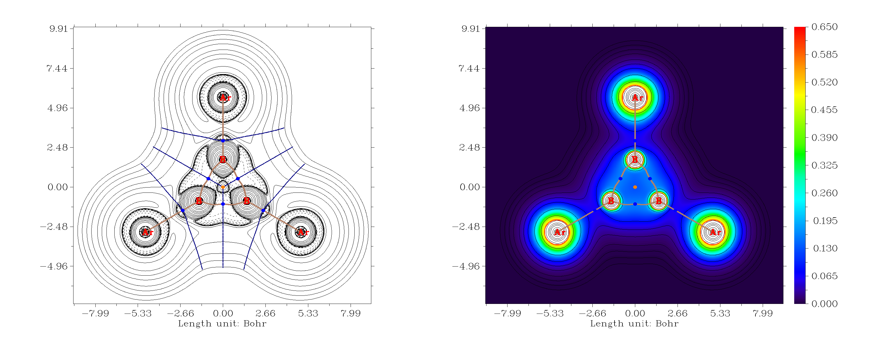 Atoms-in-molecules analysis via the program Multiwfn allows the bonding of the noble-gas adduct B3Ar3+ to be presented graphically. The blue lines separate distinct atomic basins, or regions of space assigned to each nuclear attractor. The brown lines are bond paths of electron density connecting nuclei. The blue dots are bond critical points, the red dots are nuclei, and the orange dot is a ring critical point. In the graph on the left, areas with dotted-line contours correspond to a negative value of the Laplacian while solid contours correspond to a positive value of the Laplacian.